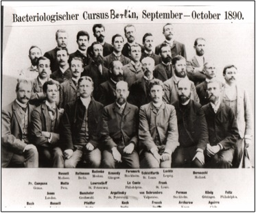 Group photo of one of the early courses on bacteriology given by Robert Koch at his institute in Berlin